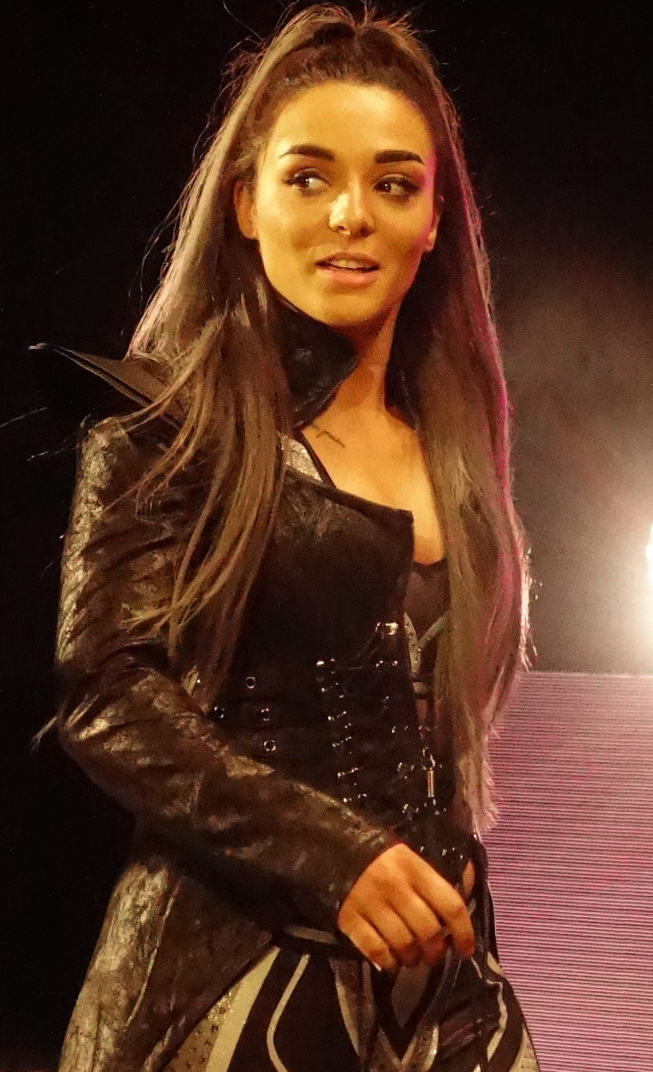 Professional wrestler, Deonna Purrazzo on April 6, 2019 at a WWE event.